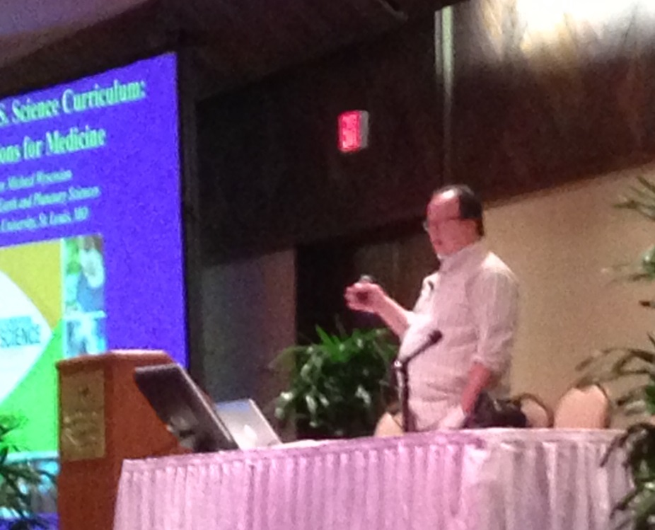 Michael Wysession Lecturing at High Risk EM 2015